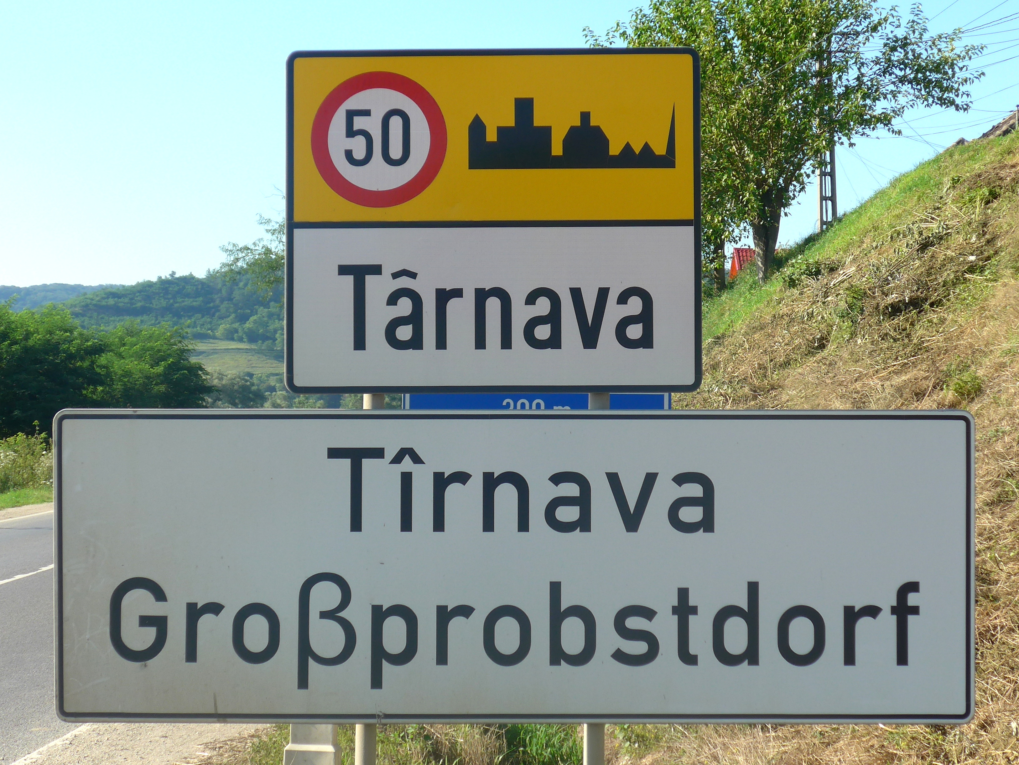 Official trilingual town sign of Tarnava/Großprobstdorf in Romania